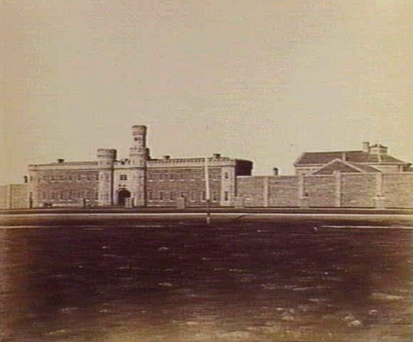 Entrance steps of Pentridge gaol, Australia